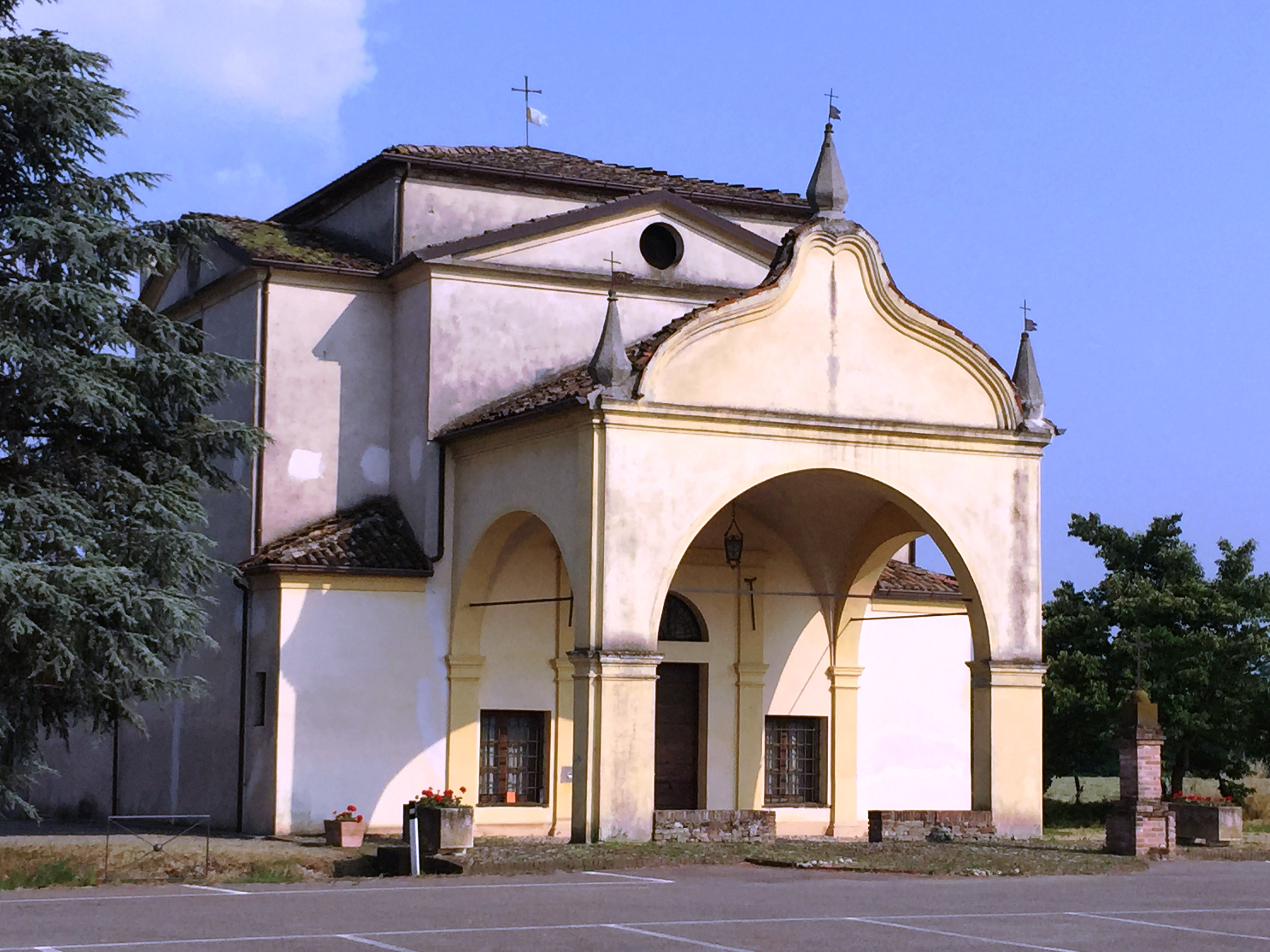 Church of Caravaggio - Sarmato